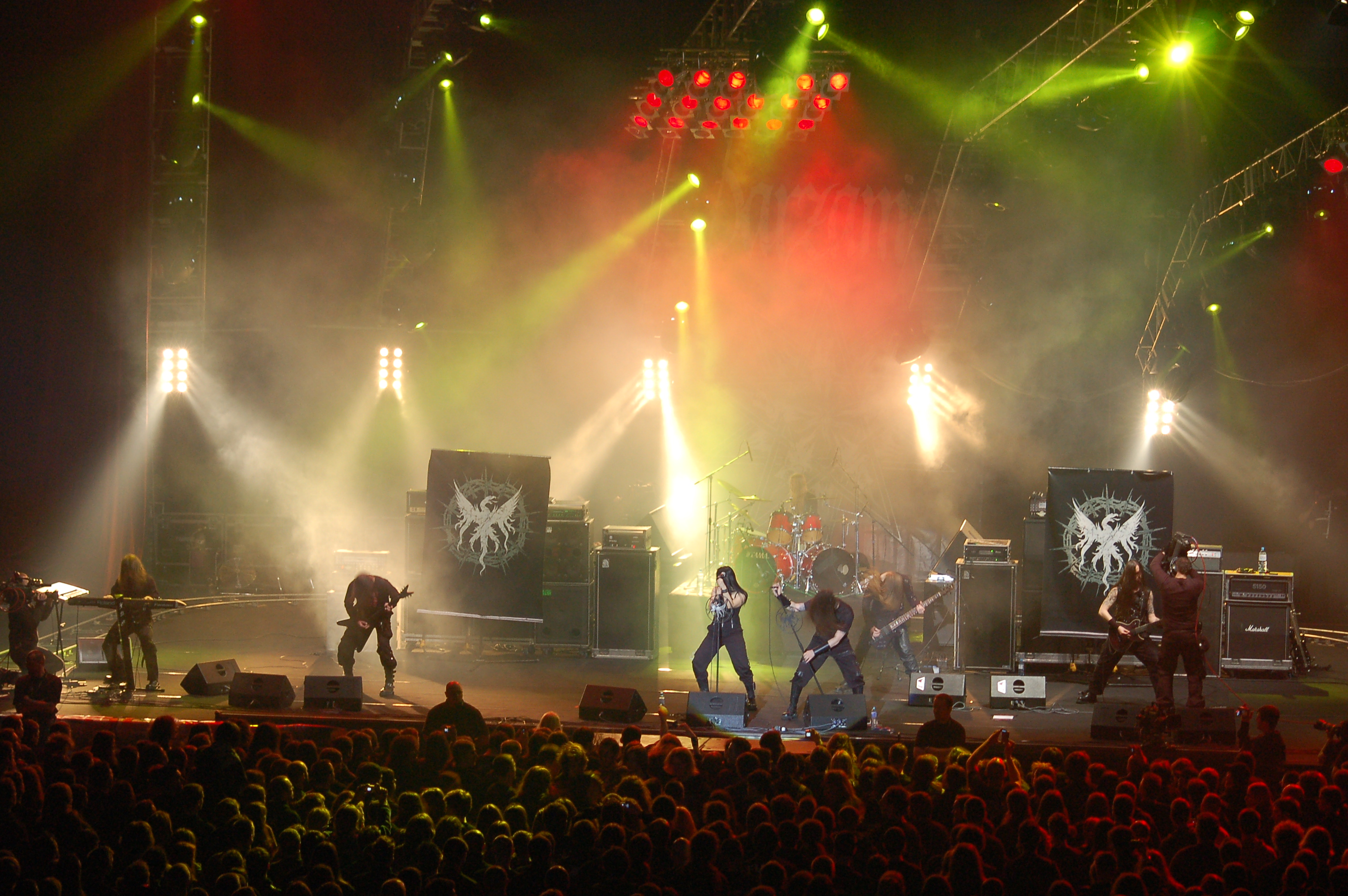 Spectre, Daamr, Nera, Darkside, Flauros, Bacchus and Chris from Darzamat during Metalmania 2007 festival.